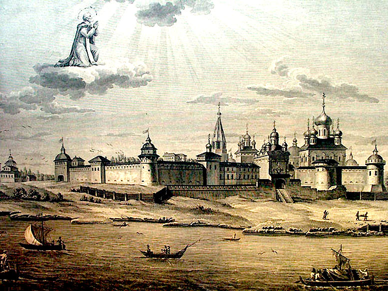 St. Macarius of Unzhensky with his monastery.